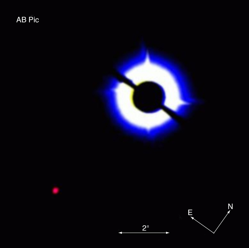 Coronagraphic image of AB Pictoris showing its tiny companion (bottom left). The data was obtained on 16 March 2003 with NACO on the VLT, using a 1.4 arcsec occulting mask on top of AB Pictoris.